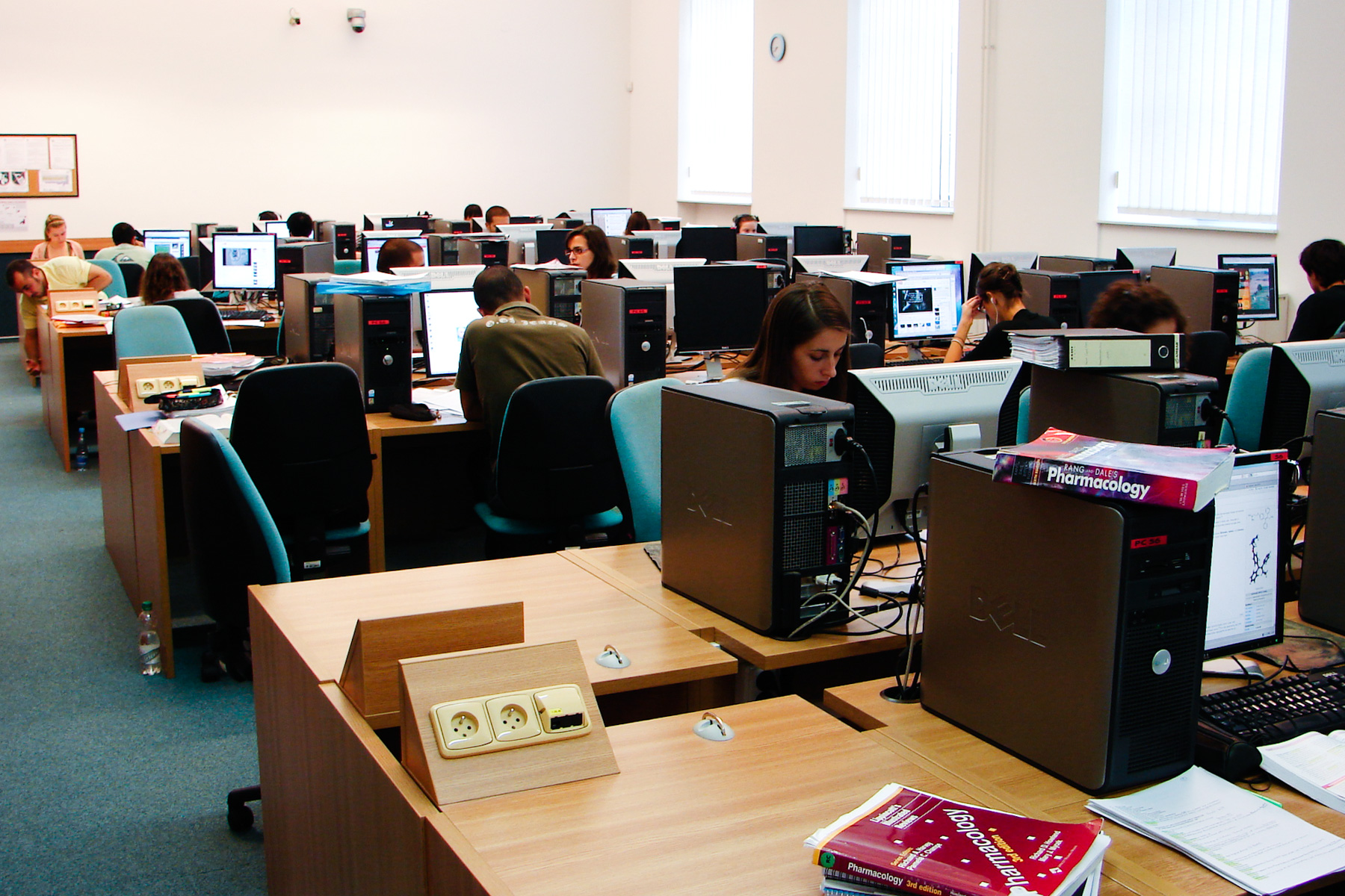 Masaryk University Computer Centre for students open 24/7 located in the building of The Faculty of Medicine, MU